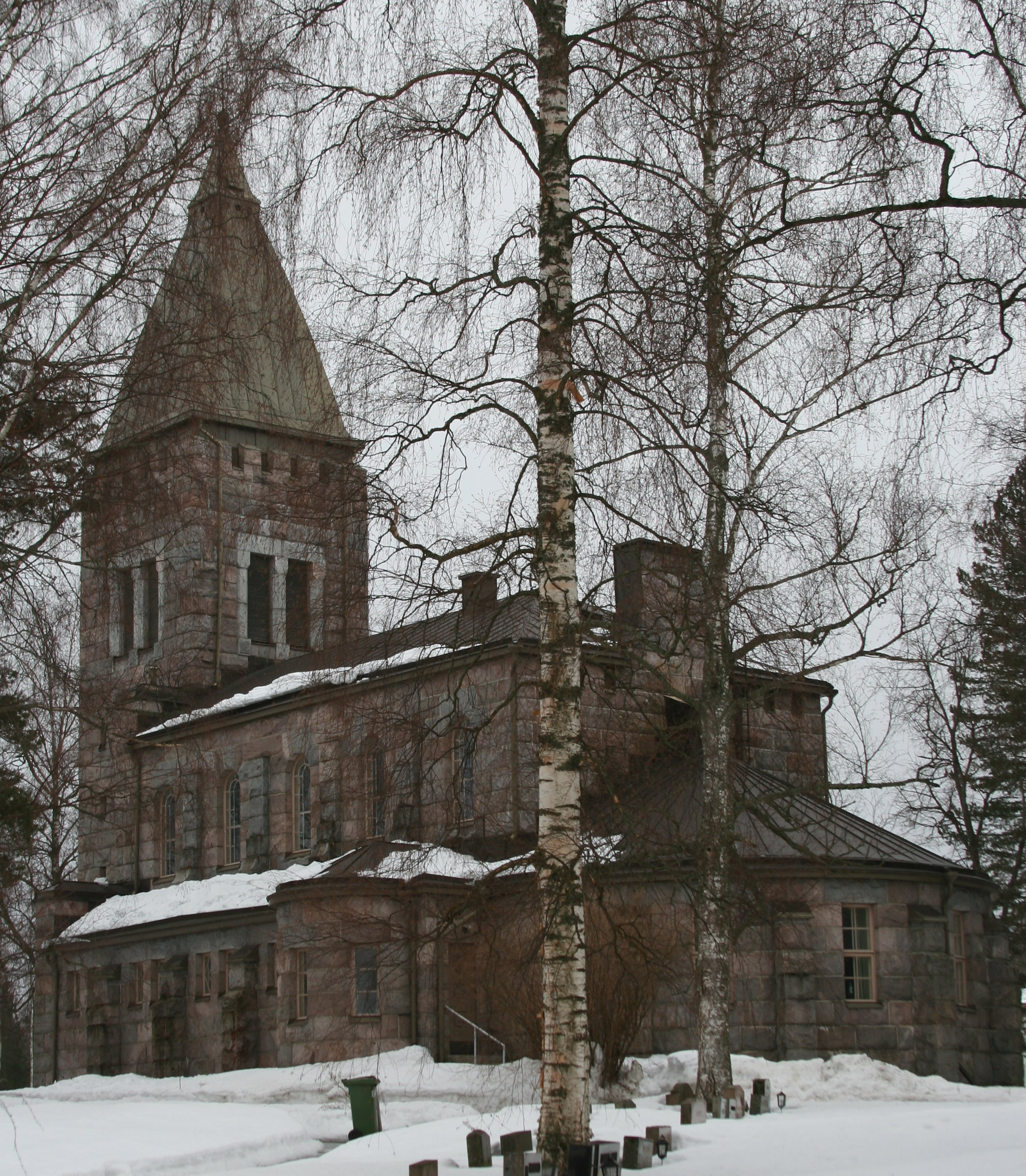 Pornainen Church, Pornainen, Finland. Architect Ilmari Launis, completed 1924. Photo taken from the graveyard.